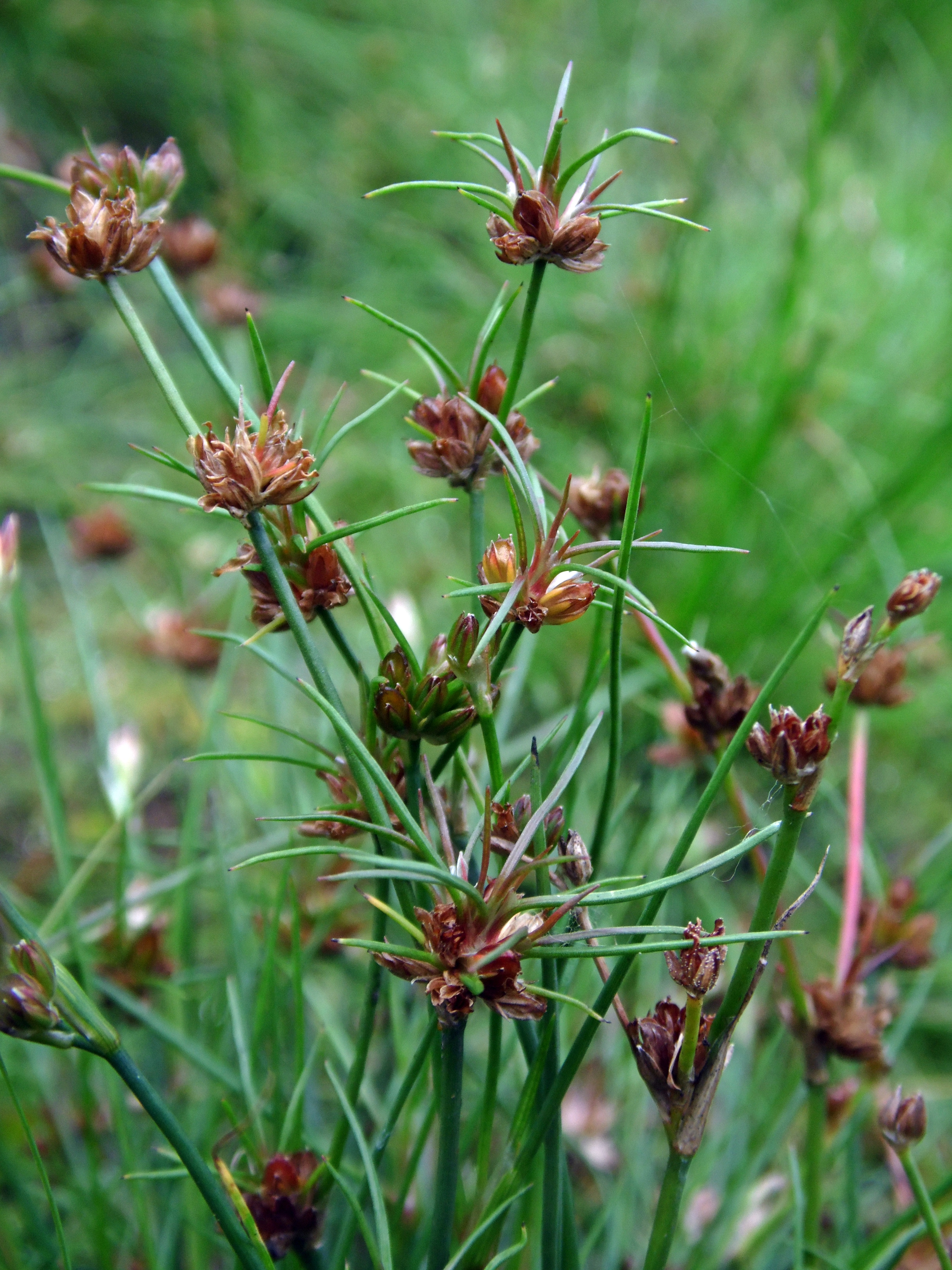 Juncus bulbosus